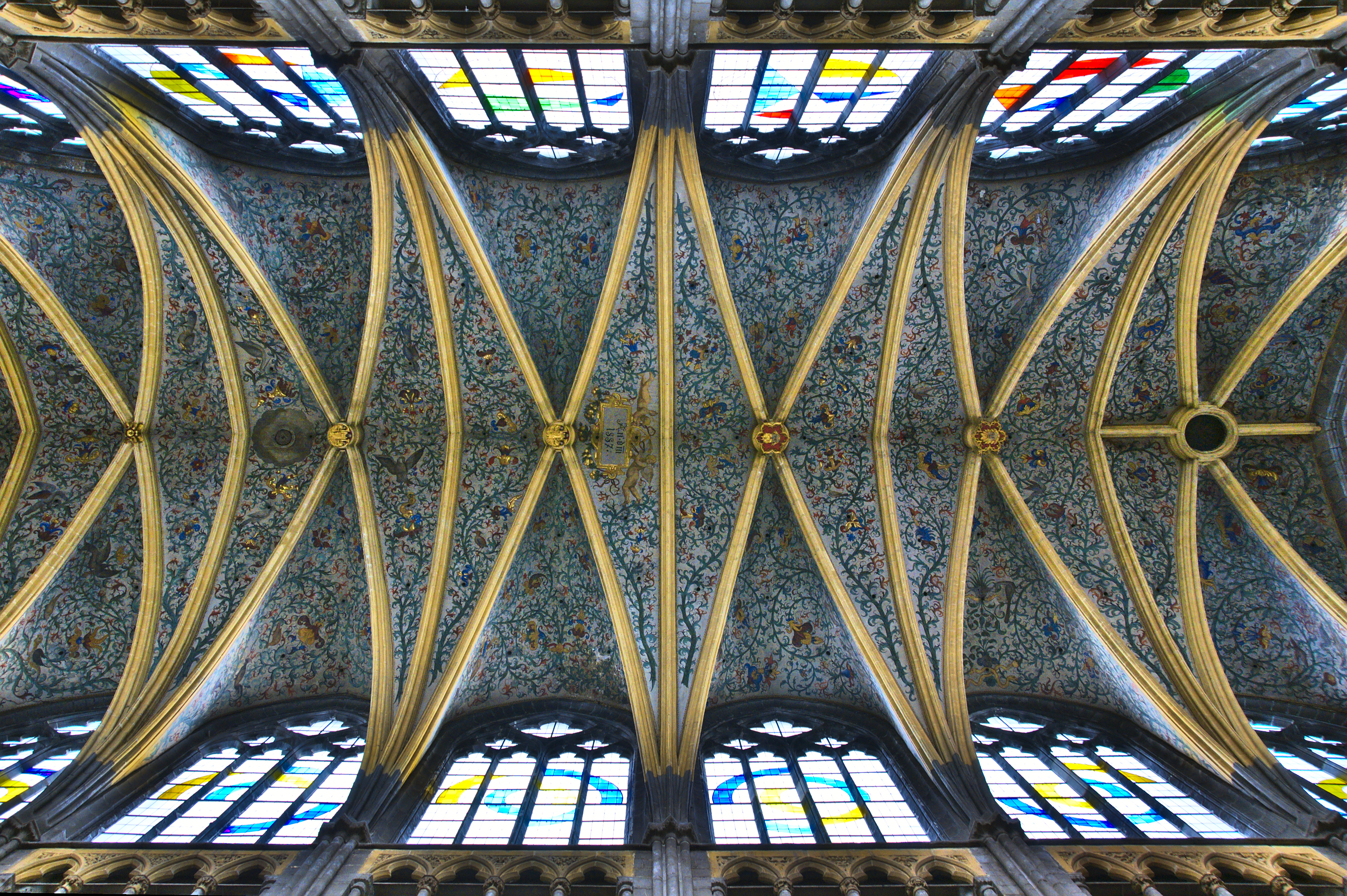 Ceiling of Cathédrale Saint-Paul, Liège